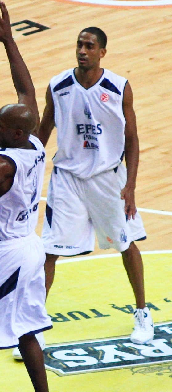 This a croped version of picture Image:Jomantas.jpg uploaded from User:Juliux in 2007